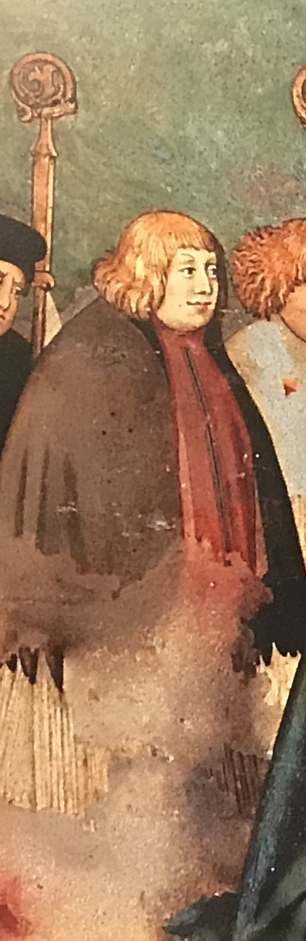 Domprobst Nikolaus v. Pentz, später Nikolaus II. v. Pentz, Bischof von Schwerin